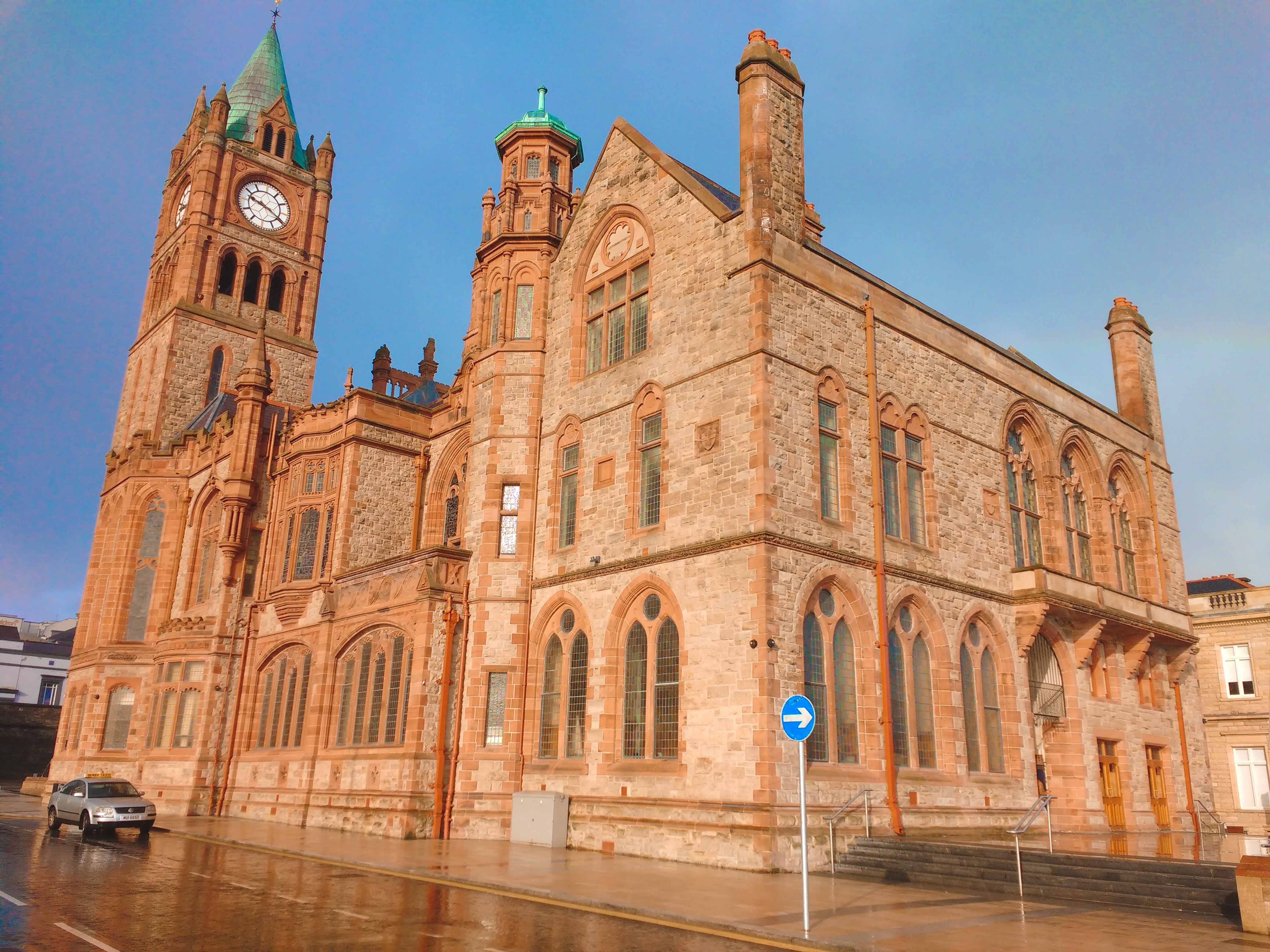 Wikidata has entry Q5615871 with data related to this item.The Guildhall in Derry, Northern Ireland, is a building in which the elected members of Derry and Strabane District Council meet. It was built in 1890.